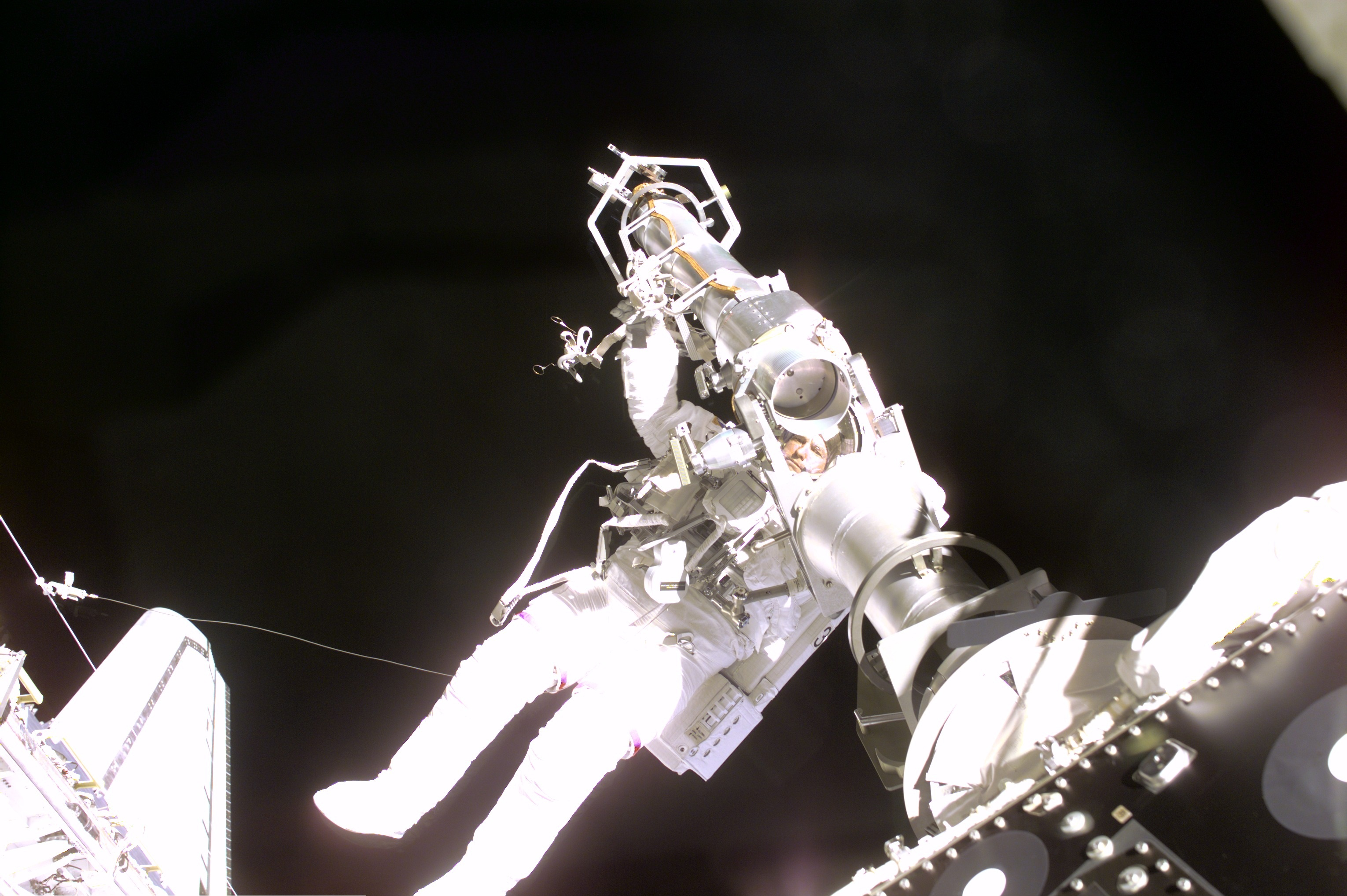 Astronaut Jeffrey N. Williams, mission specialist, works to attach the newly delivered main boom of the Russian crane (Strela) to its operator post (which had been delivered earlier by mission 2A.1). Astronauts Williams and James S. Voss also secured a United States-built crane that was installed on the station last year; replaced a faulty antenna for one of the station's communications systems; and installed several handrails and a camera cable on the station's exterior.